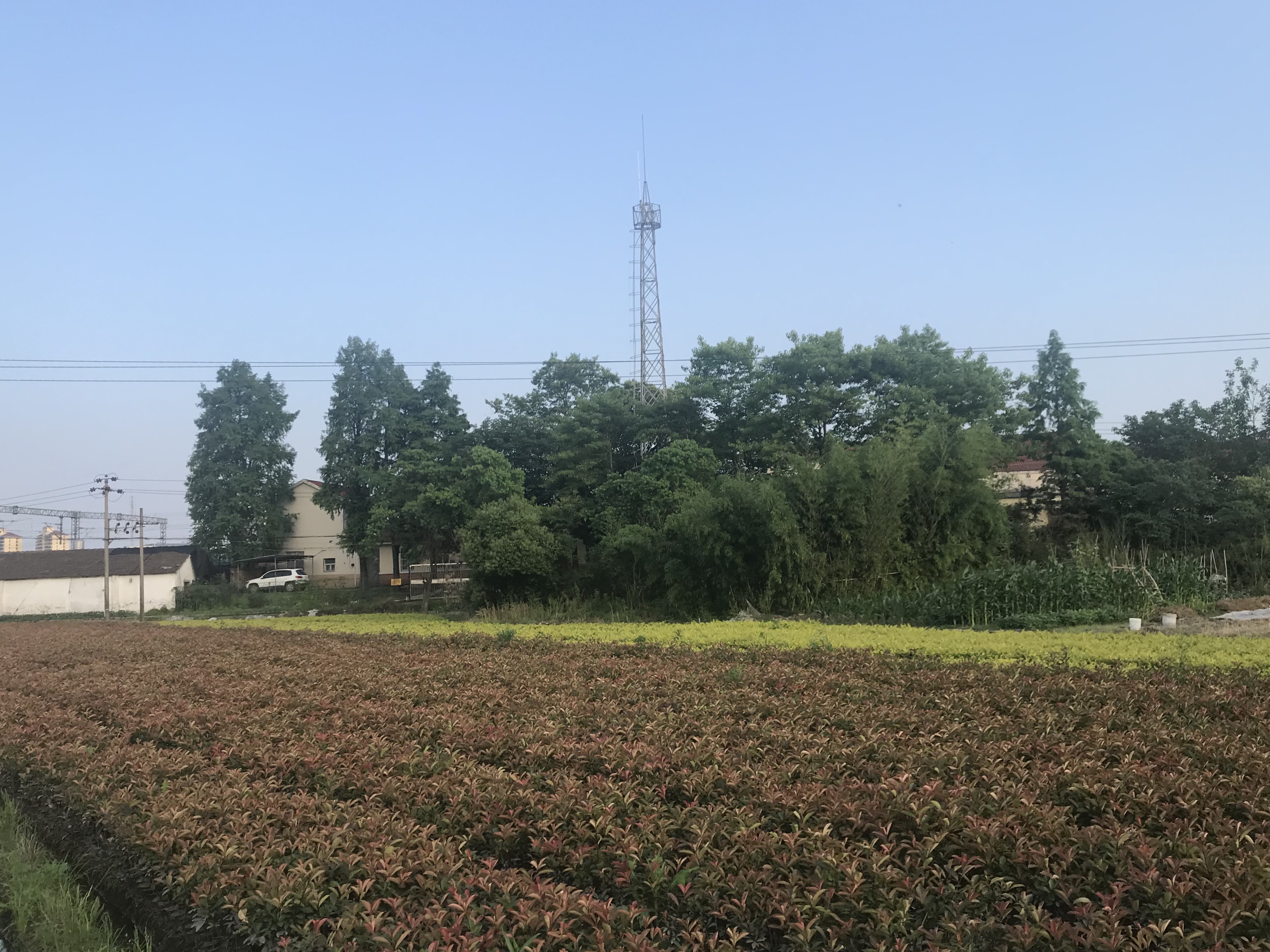 201805 Bailongqiao Station